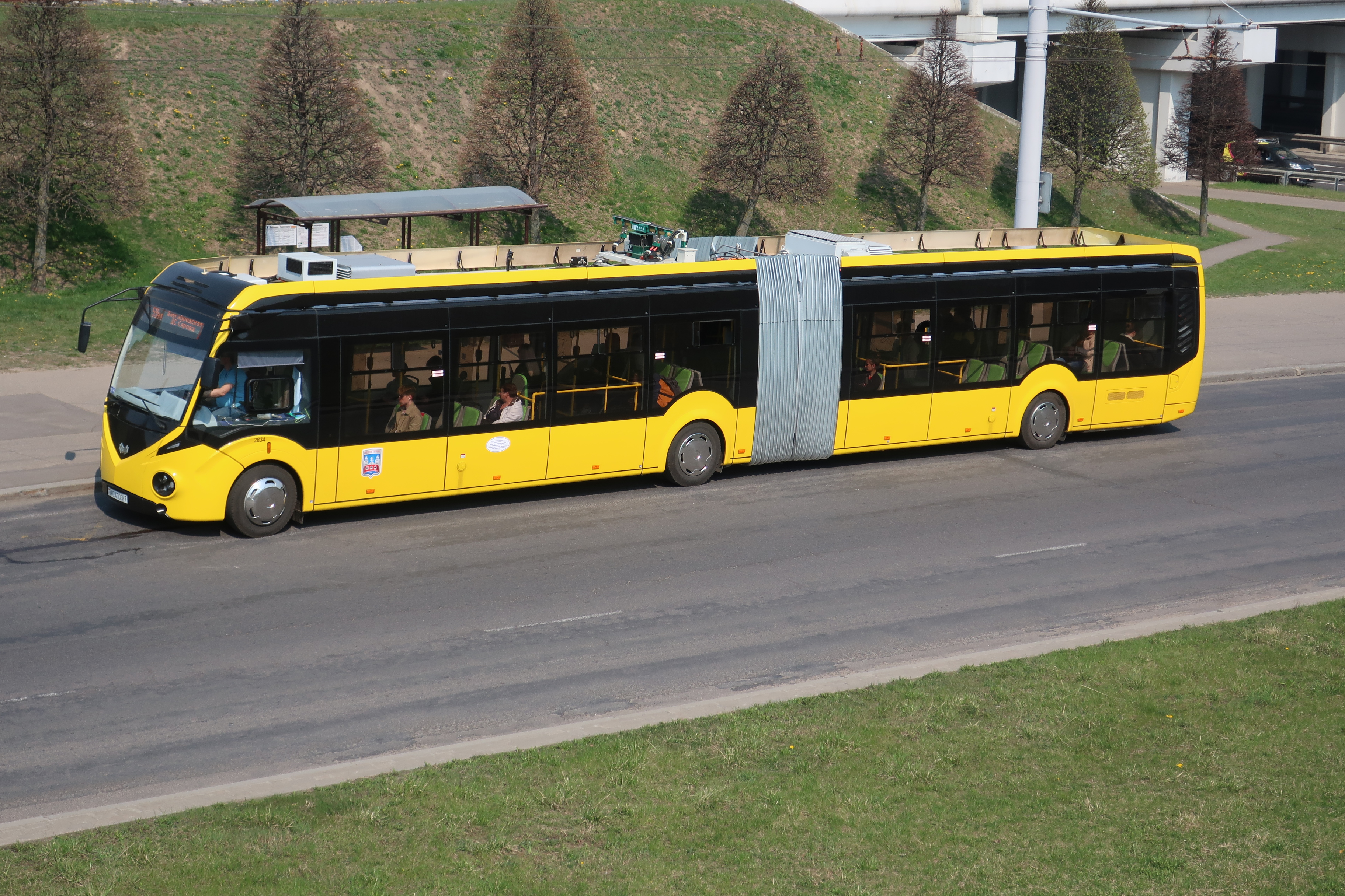 Belkommunmash E433 Vitovt Max Electro II (restyled; route 59-el)